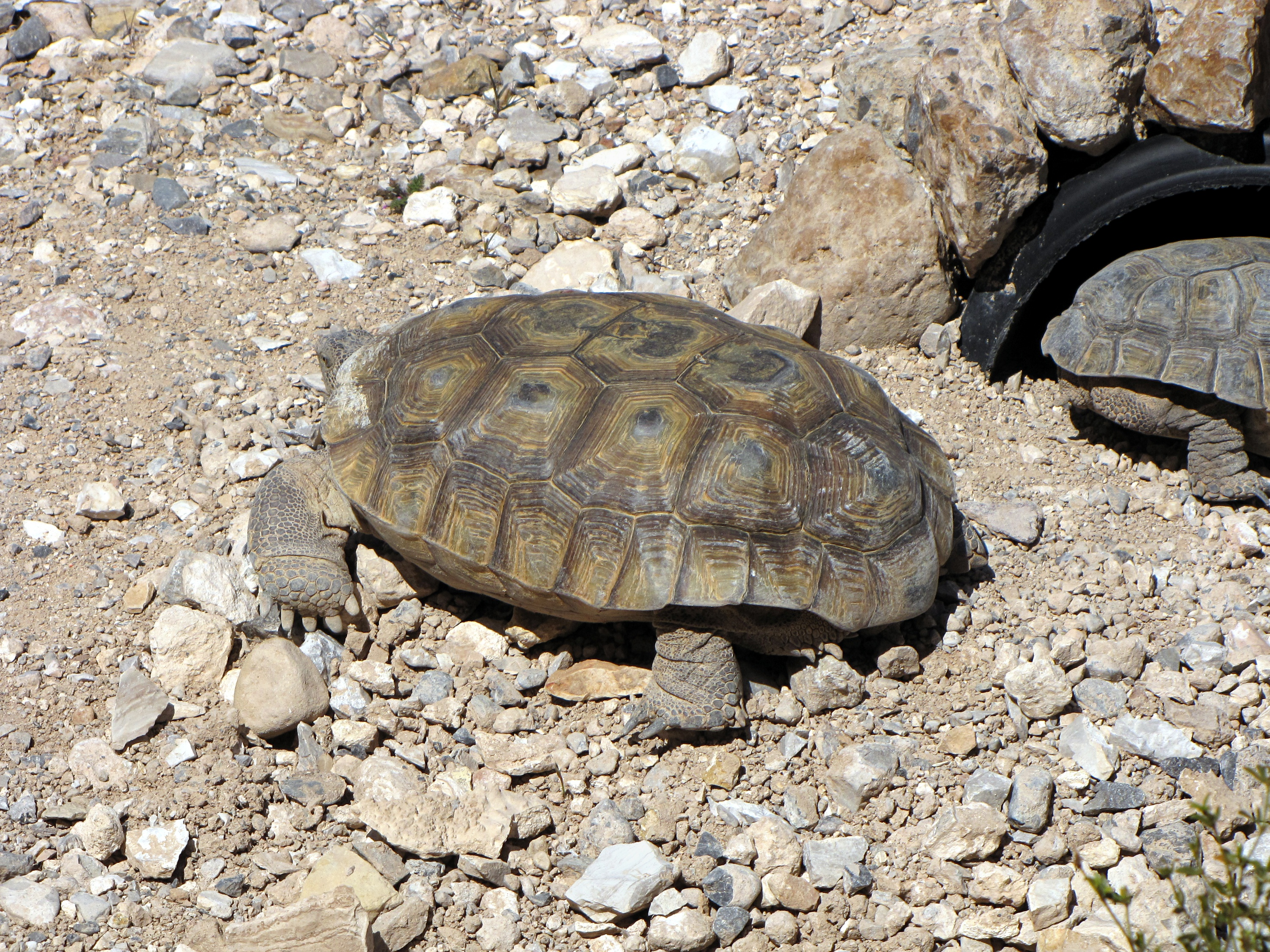 Desert tortoise — Gopherus agassizii. Within the Red Rock Canyon National Conservation Area — in Clark County, southern Nevada.